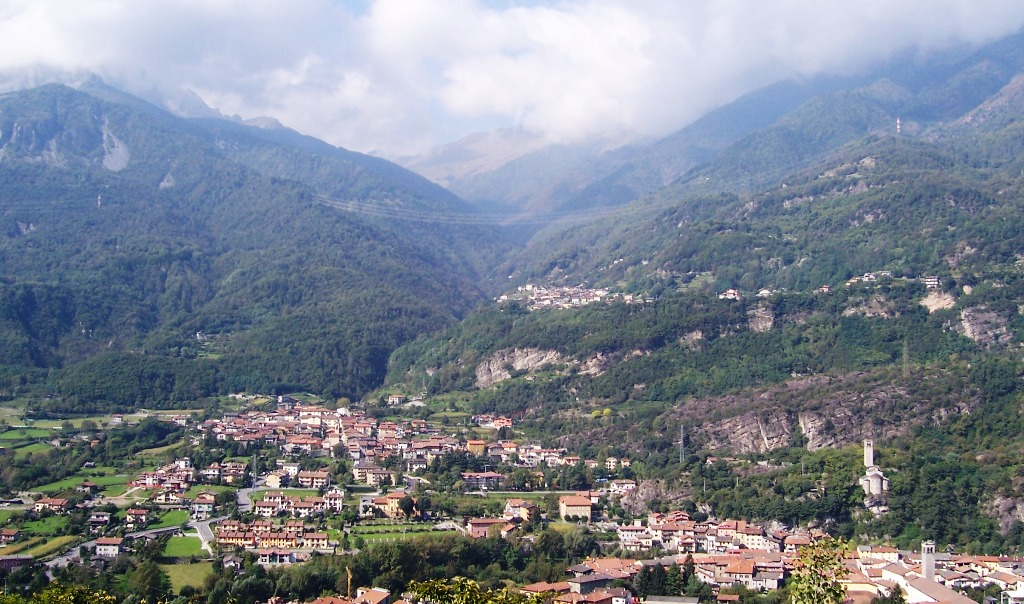 Cemmo and Pescarzo, Val Camonica